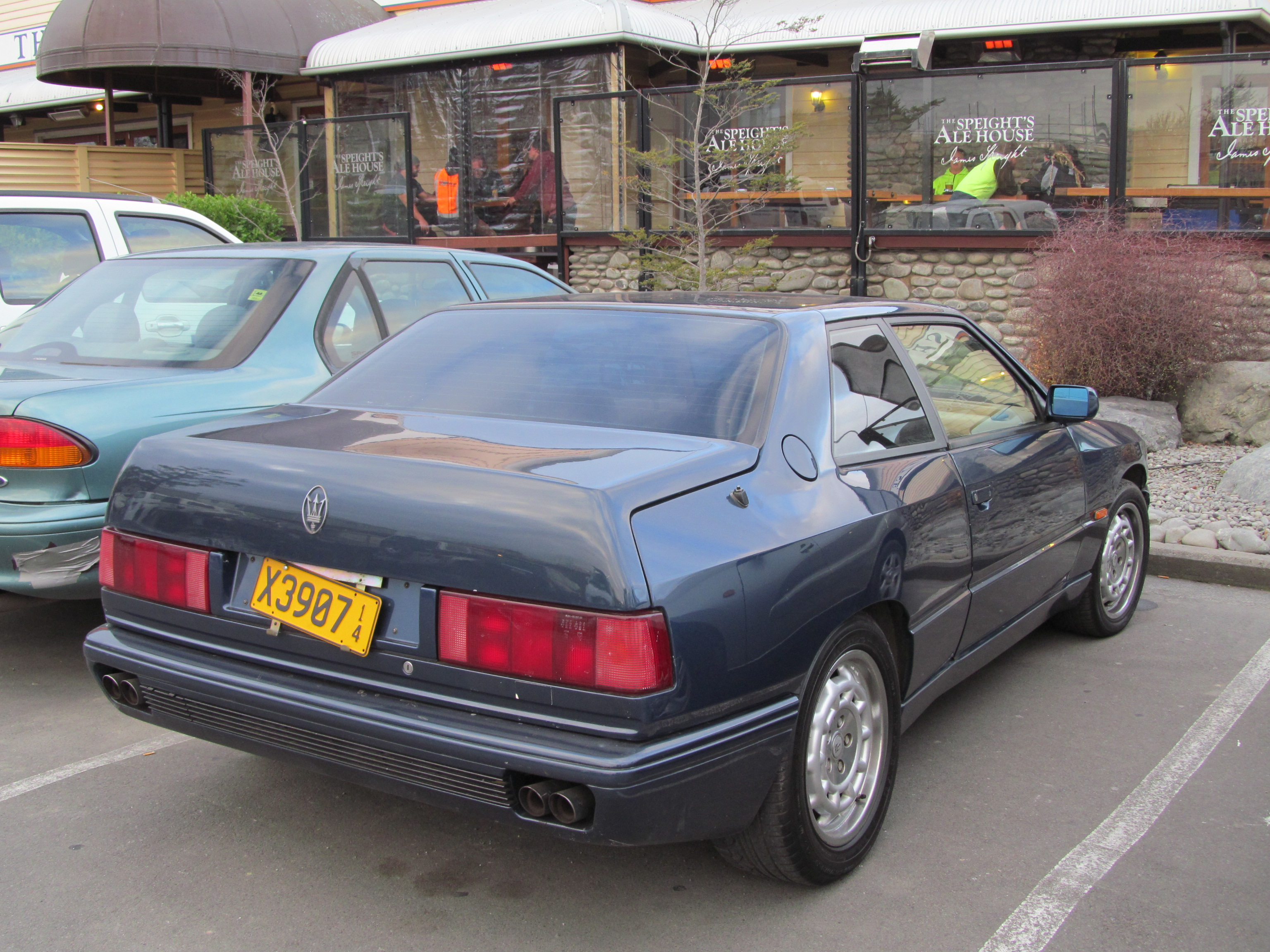 I forgot that I spotted this in a pub car park a few months ago. Just 1157 of these IIs were made between 1992 and 1997, so it was the last car I expected to see there. The plate holder beneath the NZ dealer plate looks to be for a Japanese plate, so I think that is most likely where it came from, though it is obviously LHD.